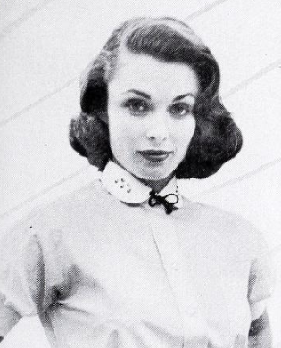 Rosemarie Bowe in a New Era clothing ad, Photoplay